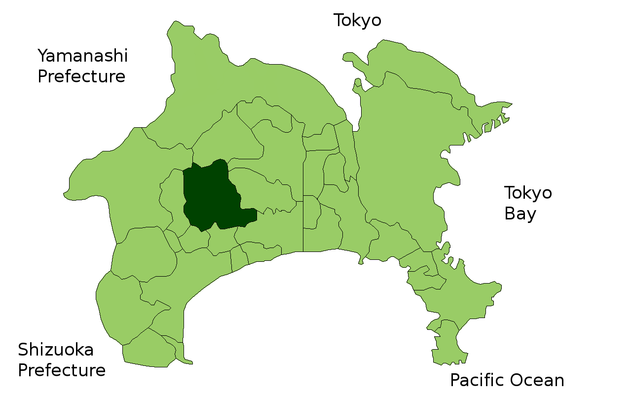 Location Map of Hadano in Kanagawa Prefecture, Japan